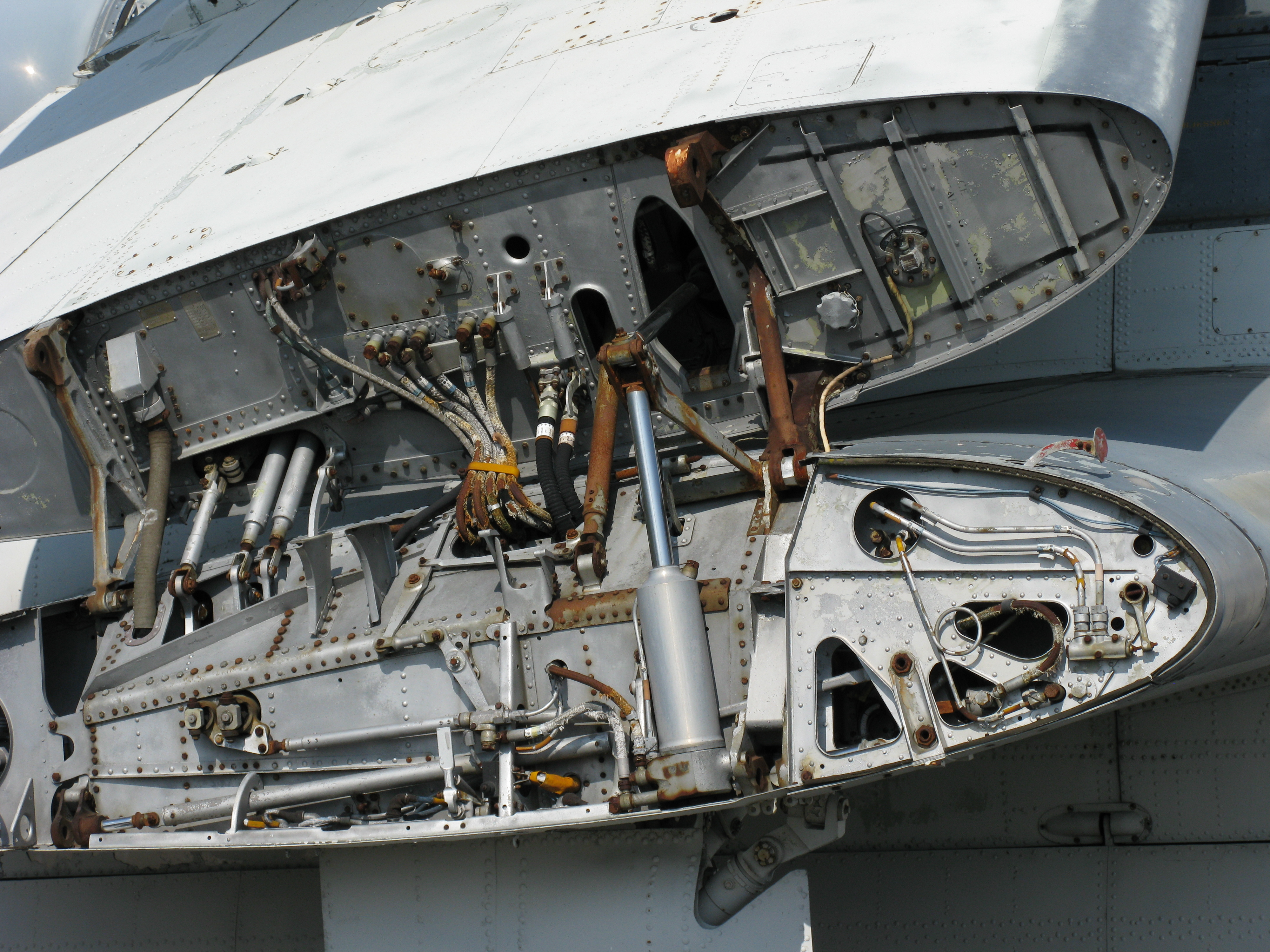 Air Force Museum of the Bundeswehr, Berlin-Gatow: Fairey Gannet, folding wing joint.